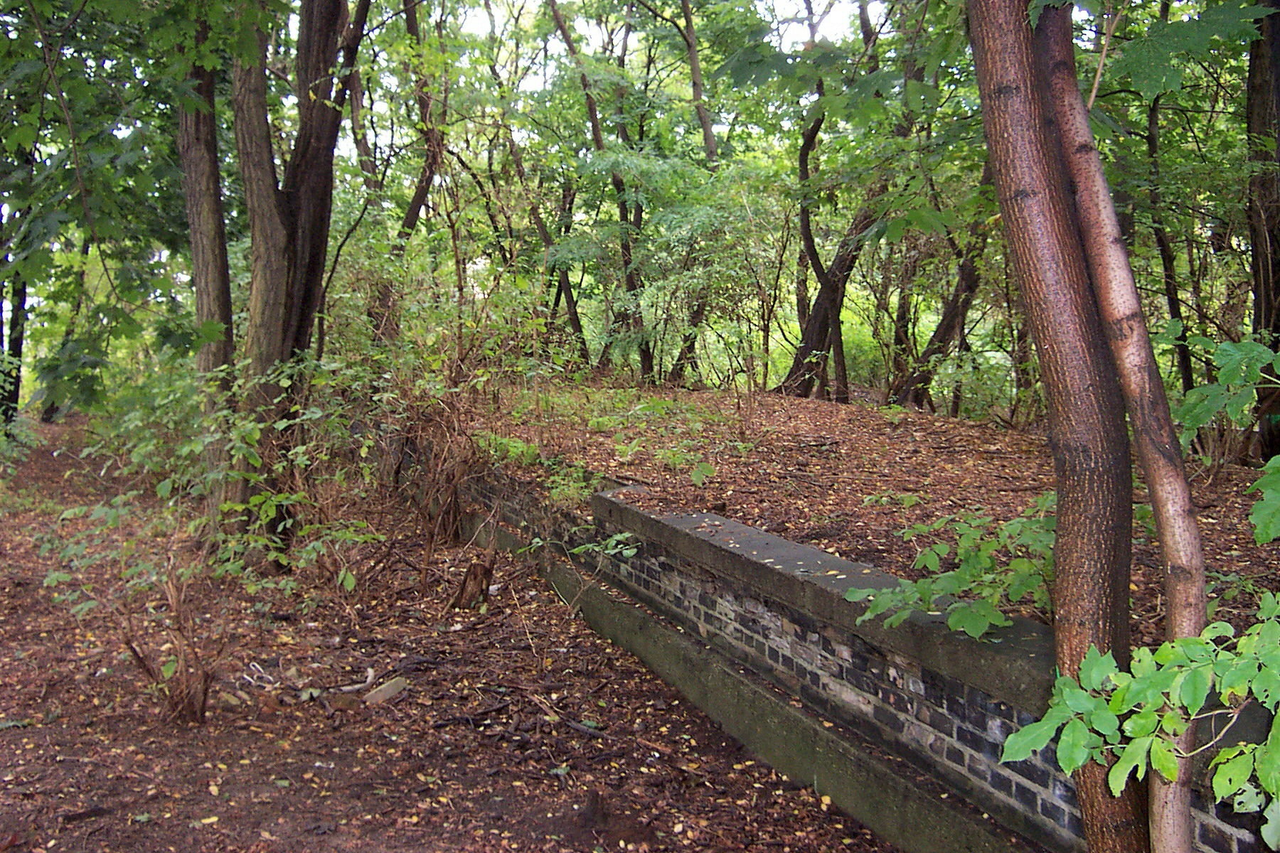 Platform remains of the former Anhalter Bahnhof in Berlin